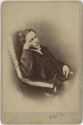 Charles Lutwidge Dodgson, half-length, seated on sofa with head leaning on his right hand 14.5 x 10.0 cm Albumen print, circa 1895 From the Lewis Carroll (Charles Lutwidge Dodgson) Photography Collection of the Harry Ransom Center, The University of Texas at Austin. For the article Lewis Carroll